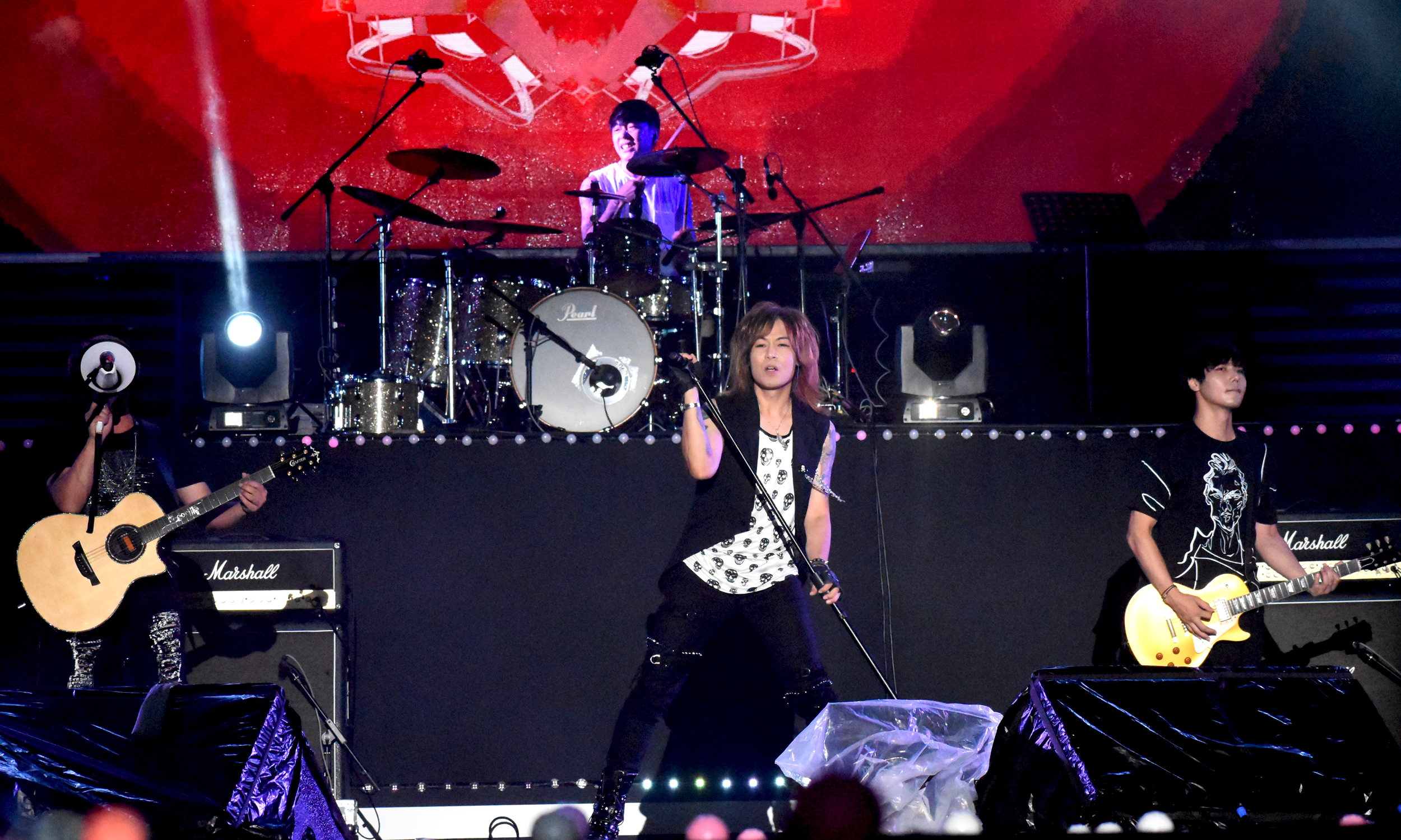 Eve at the 23rd Busan Sea Festival in Haeundae on August 3, 2018.